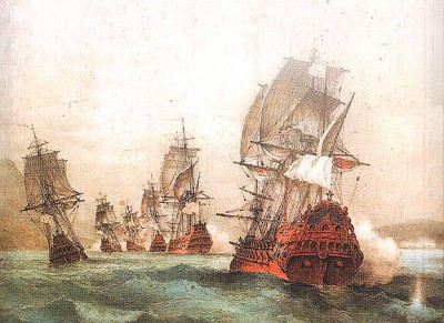 The fleet of the French privateer Duguay-Trouin arrives to attack Rio de Janeiro in 1711, reproduction of a lithograph